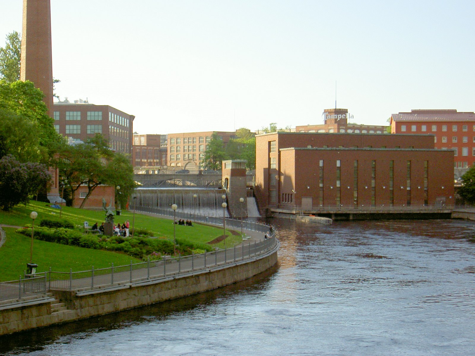 Tammerkoski, Tampere, Finland.